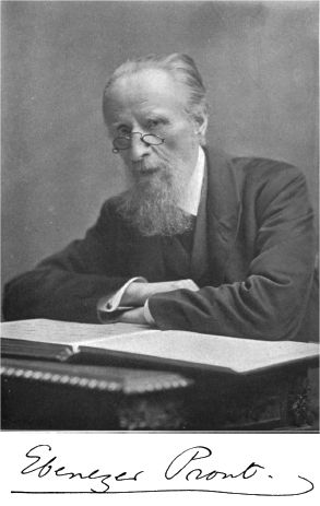 English musicolgist Ebenezer Prout (1835–1909)